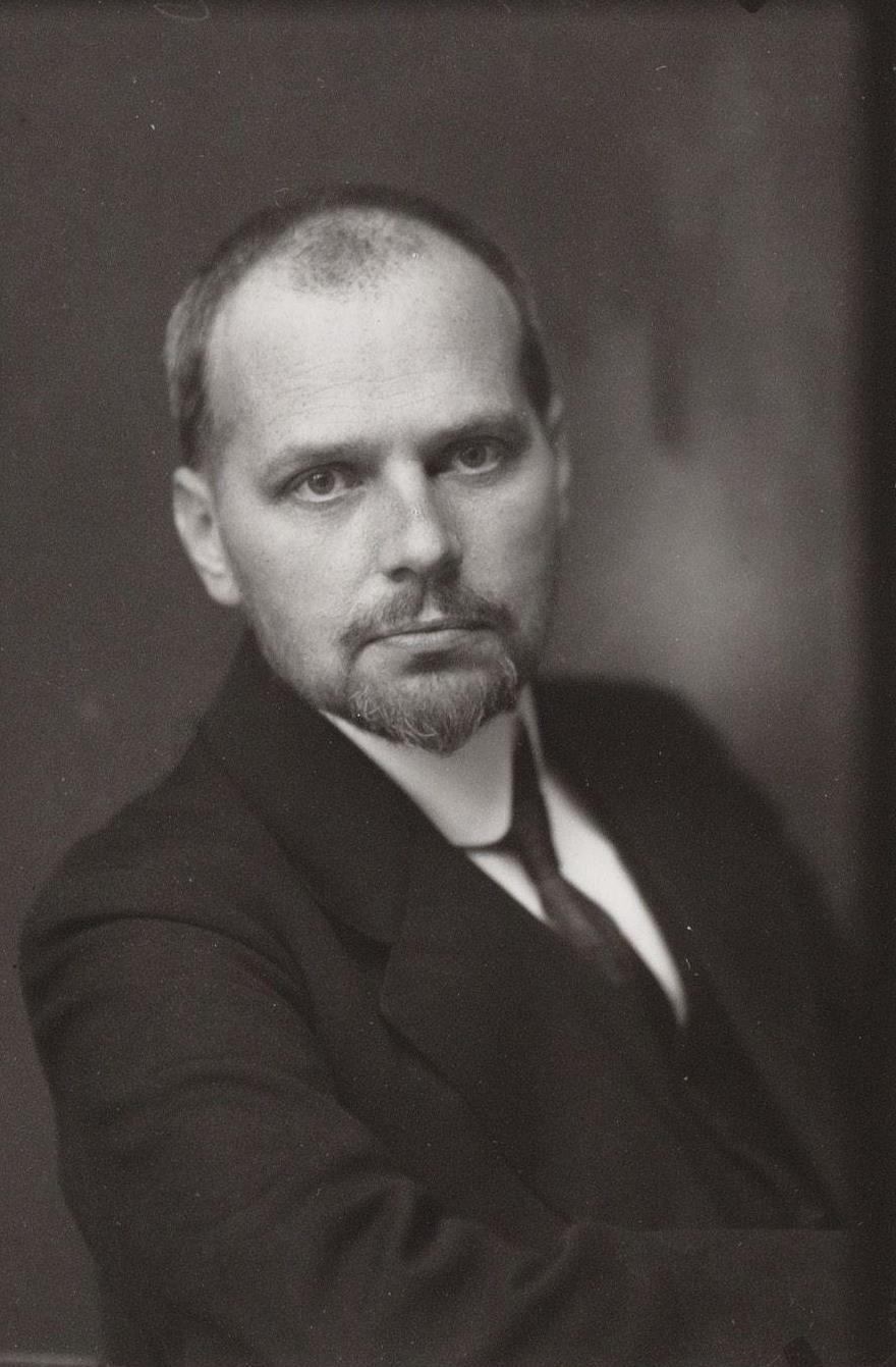 Photograph of Klaas Herman Bouman (1874-1947) by Jacob Merkelbach (1877-1942)